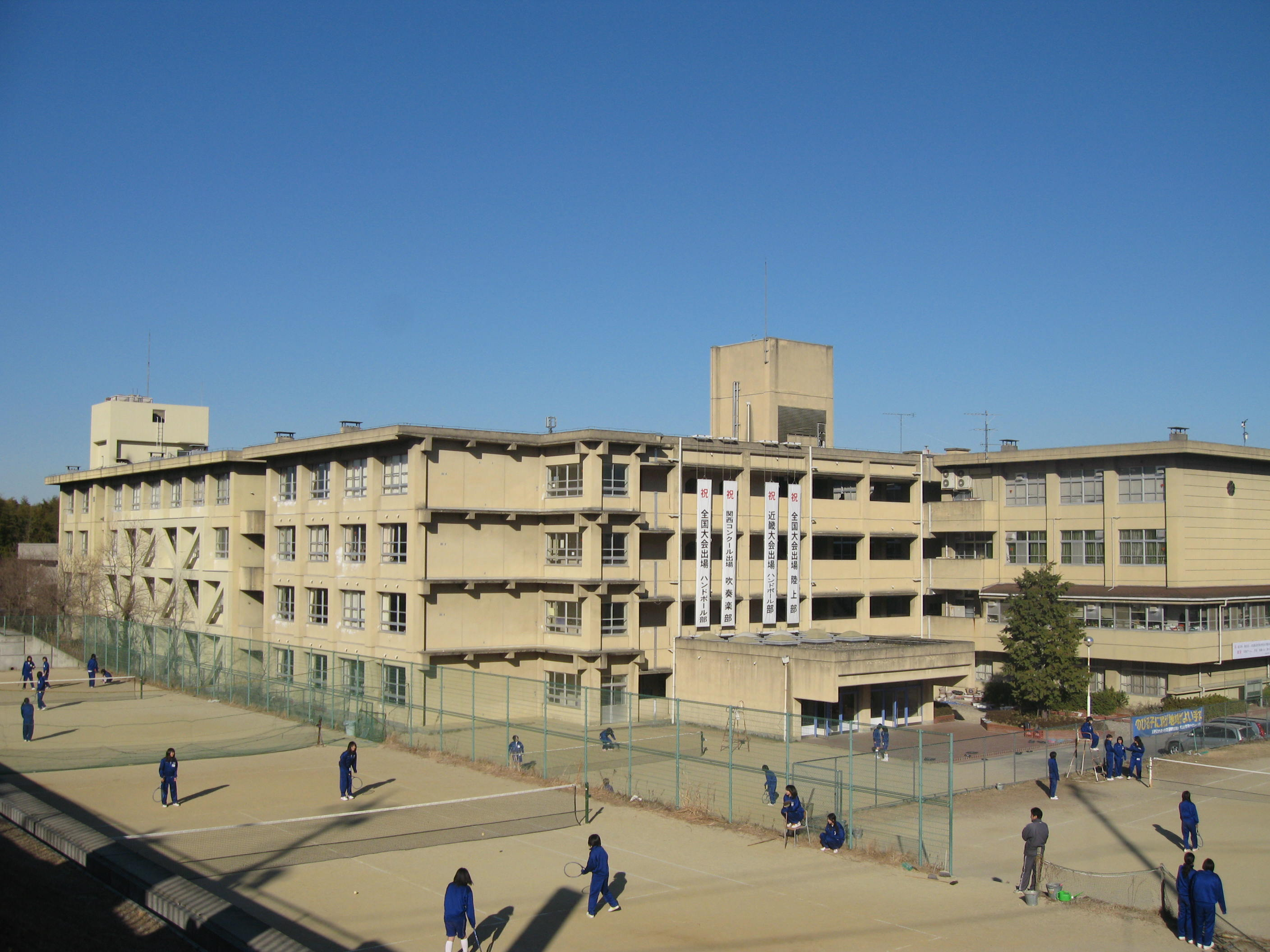 kyotanabe-shiritsu_osumi_junior_high_shool_in_kyoto_japan_no.2